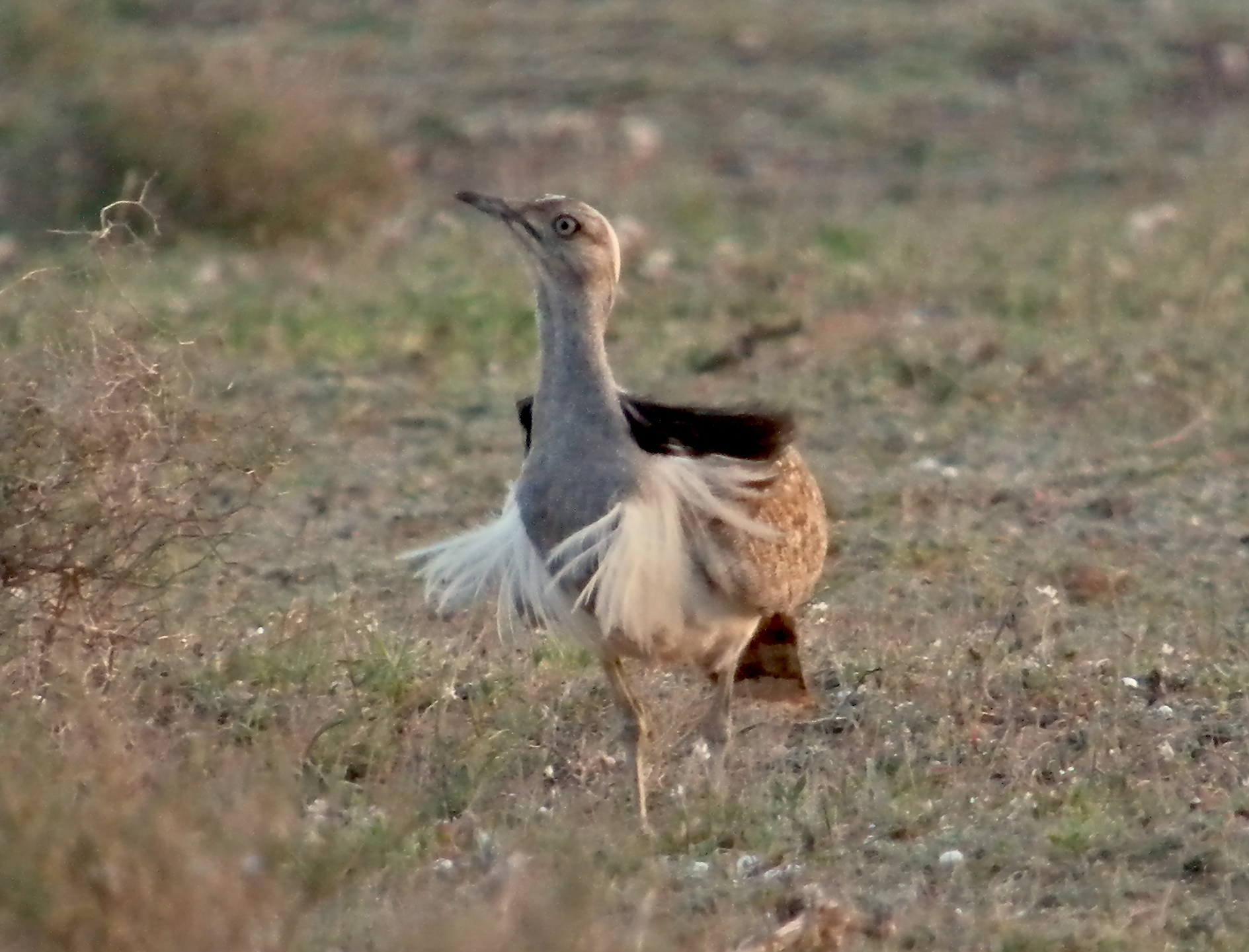 Canarian Houbara male (Chlamydotis undulata fuertaventurae) at Lanzarote island.